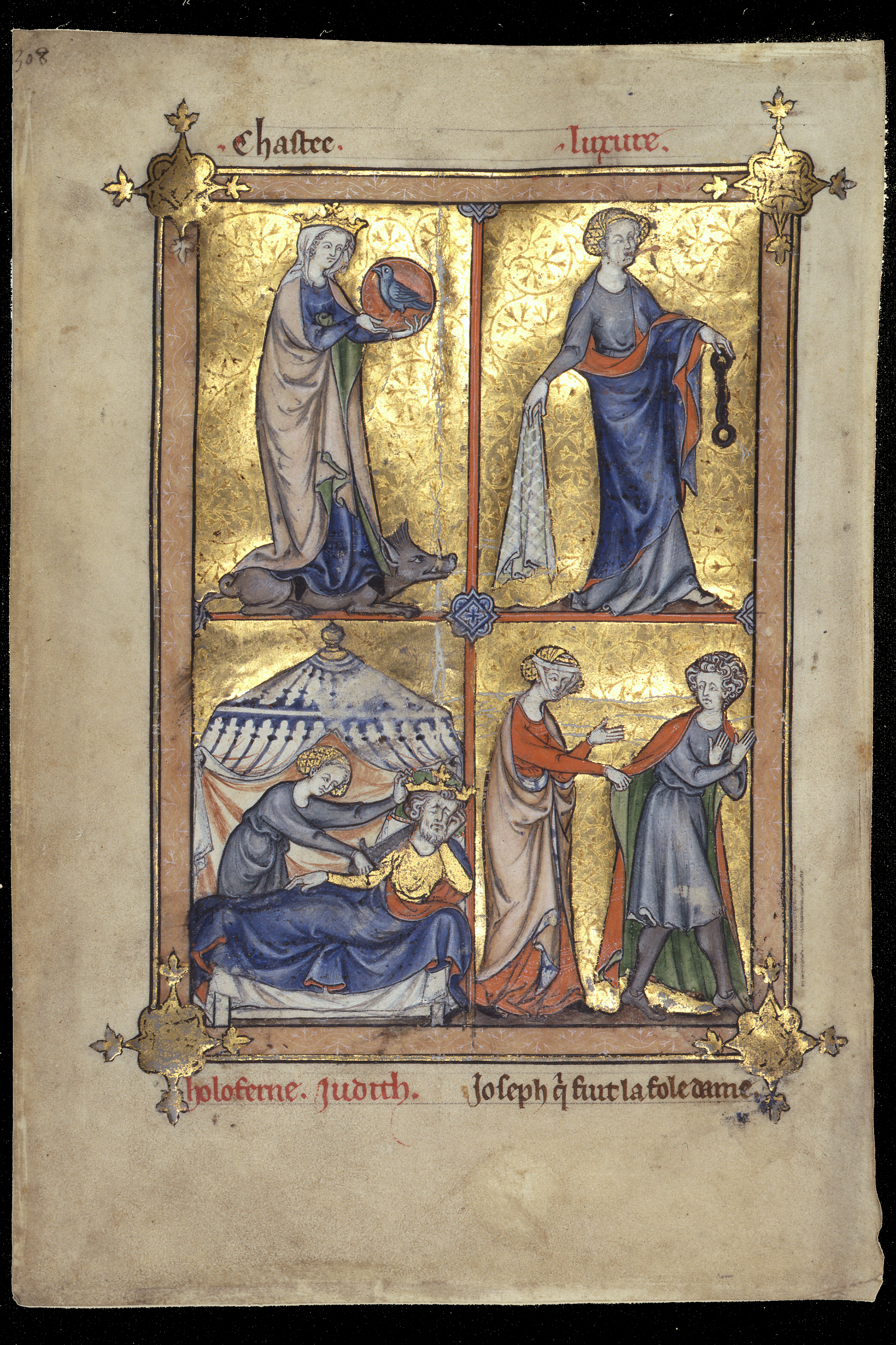 Master Honoré Miniature from Somme Le Roy 2 Fitzwilliam mus. c. 1300